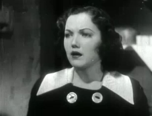 Low resolution screenshot of Stella Lamb (Lois January) from the American western film Rogue of the Range (1936). The film is now in the public domain.